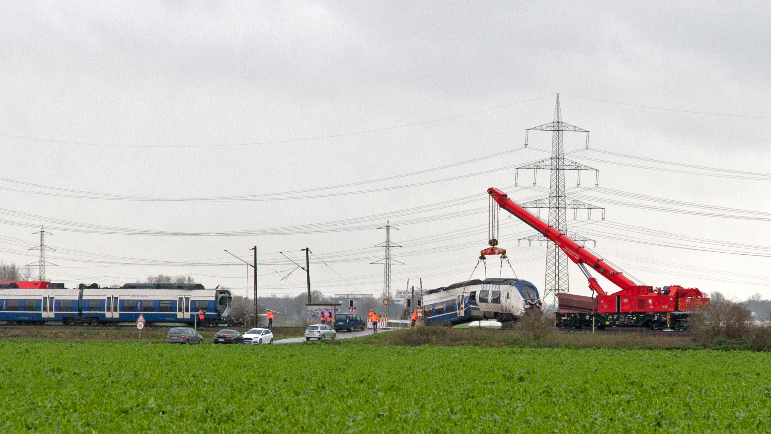 Crane works at train accident site near Meerbusch on 8 Dec 2017.